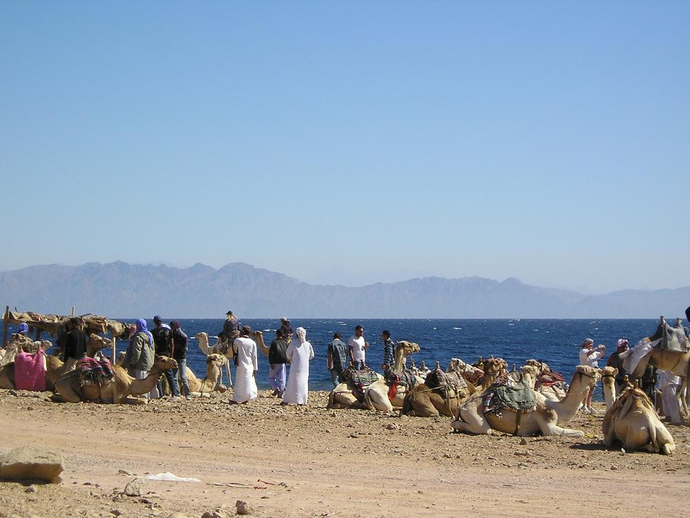 Near Dahab, Sinai, Egypt. Background Saudi Arabia.